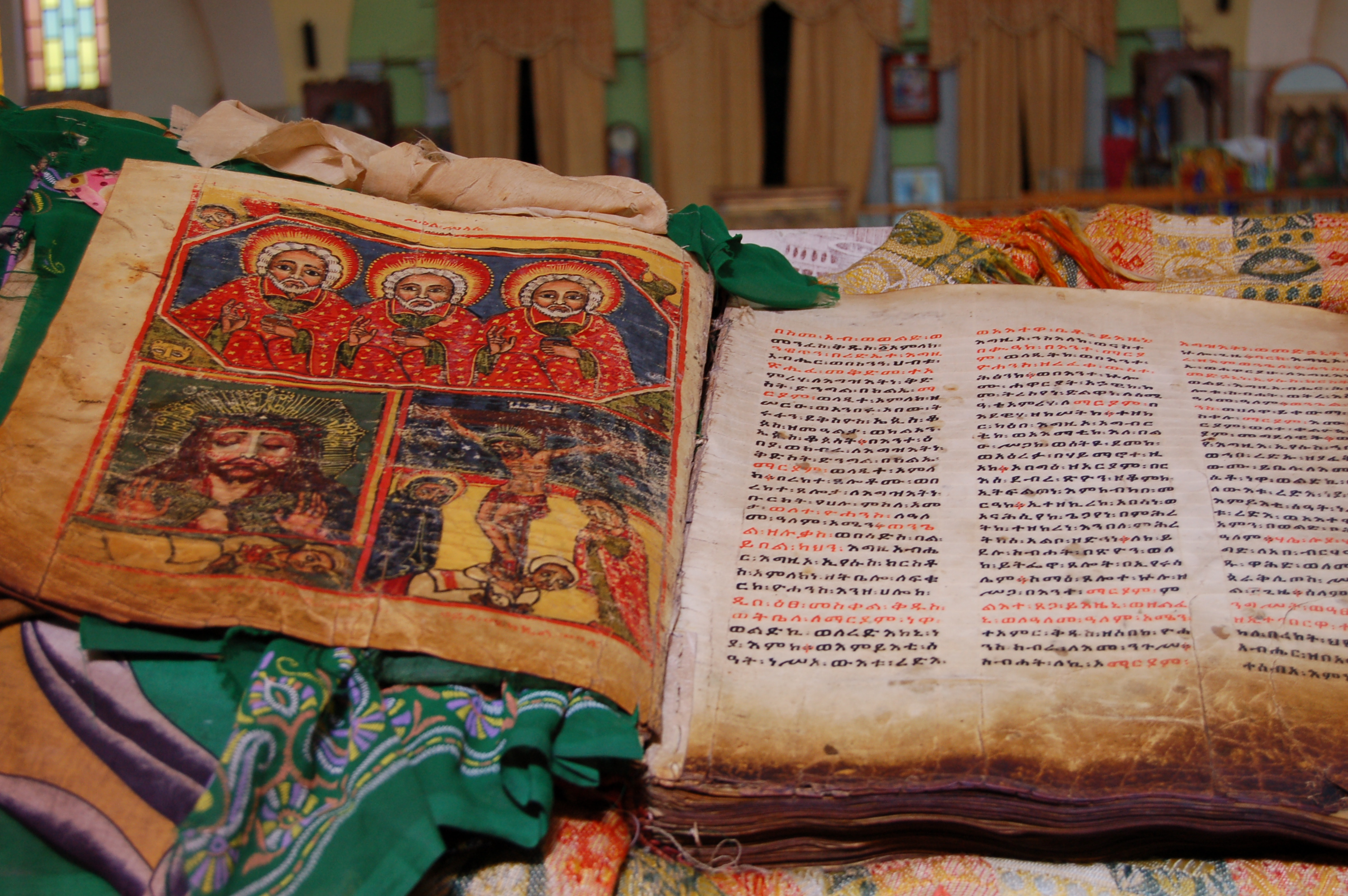 Ethiopian Bible at the Axum cathedral